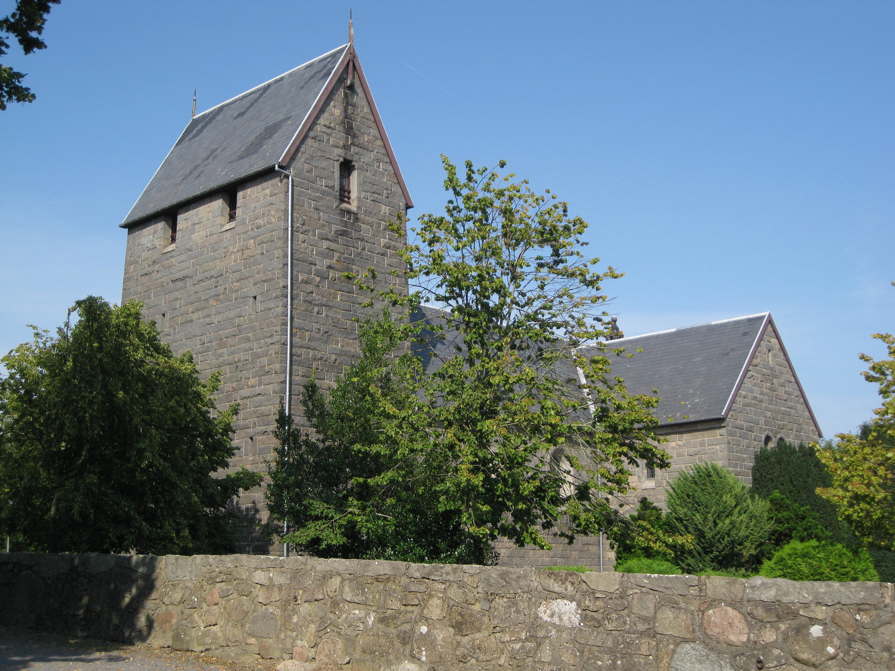 The church "Østermarie Kirke" in the small town "Østermarie". The town is located on the island Bornholm in east Denmark.